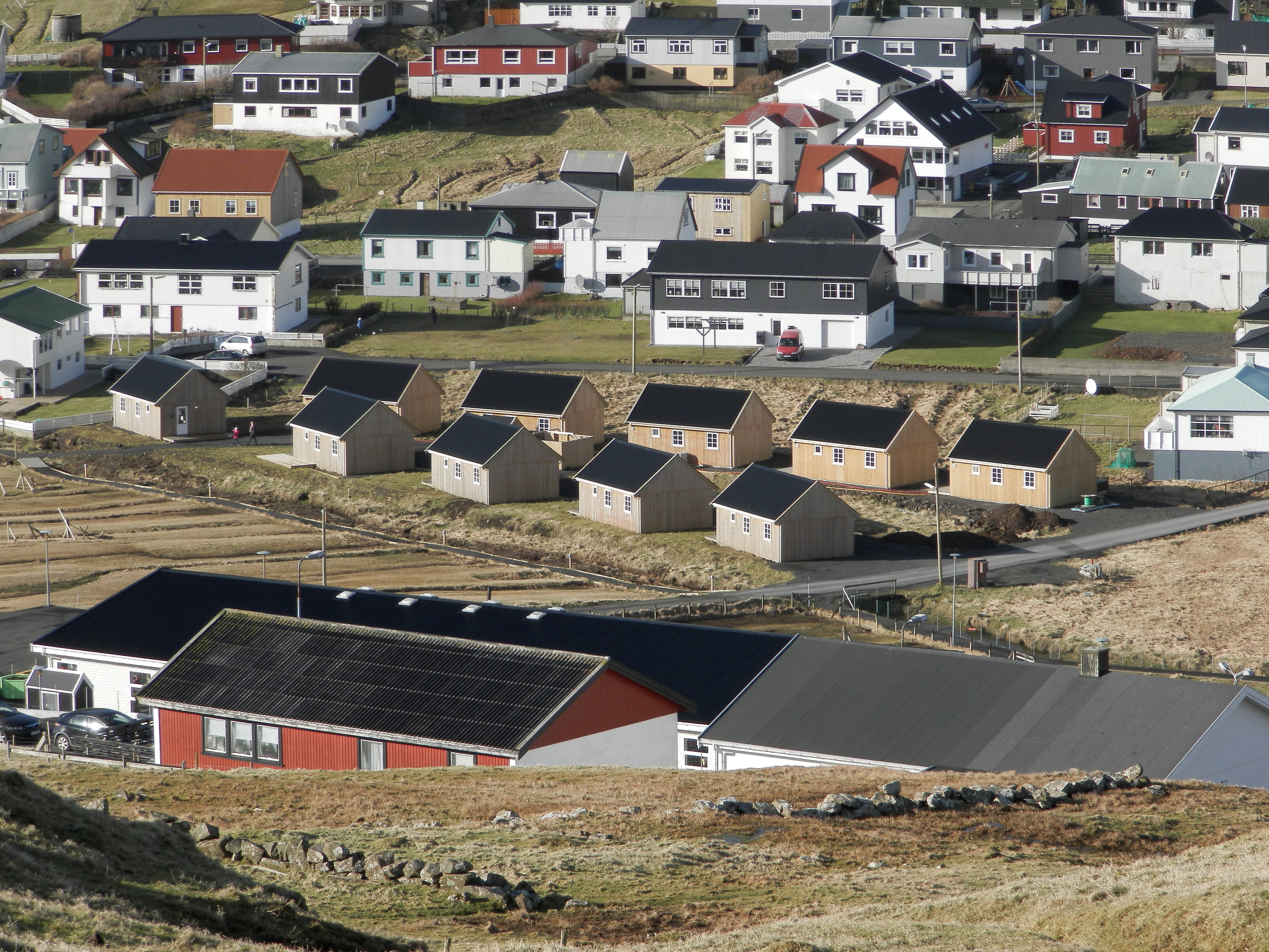 There are ten cottages in Vágur, built in 2016, which are used as dormitory for the pupills who attend the sports folk high school and as accommodation for tourists.